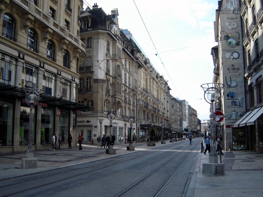 Location: Rue de la Croix-d'Or, facing West, Geneva, Switzerland. Author: Sikander Date: September 25th 2005 Details